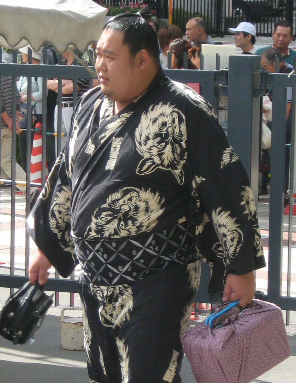 taken at Sep 2008 tournament